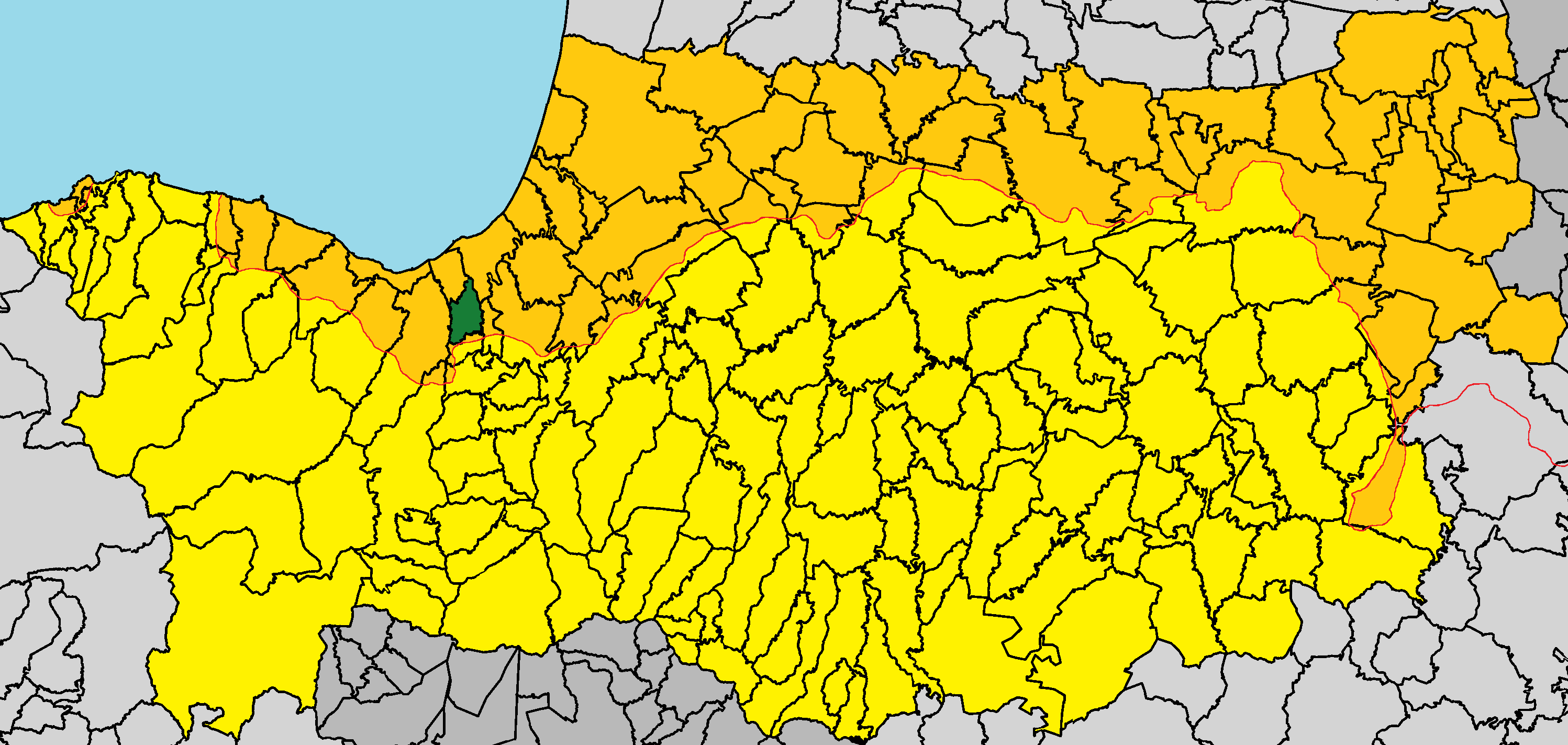 Kalo Chorio (Çamlıköy) in Nicosia District (de jure).